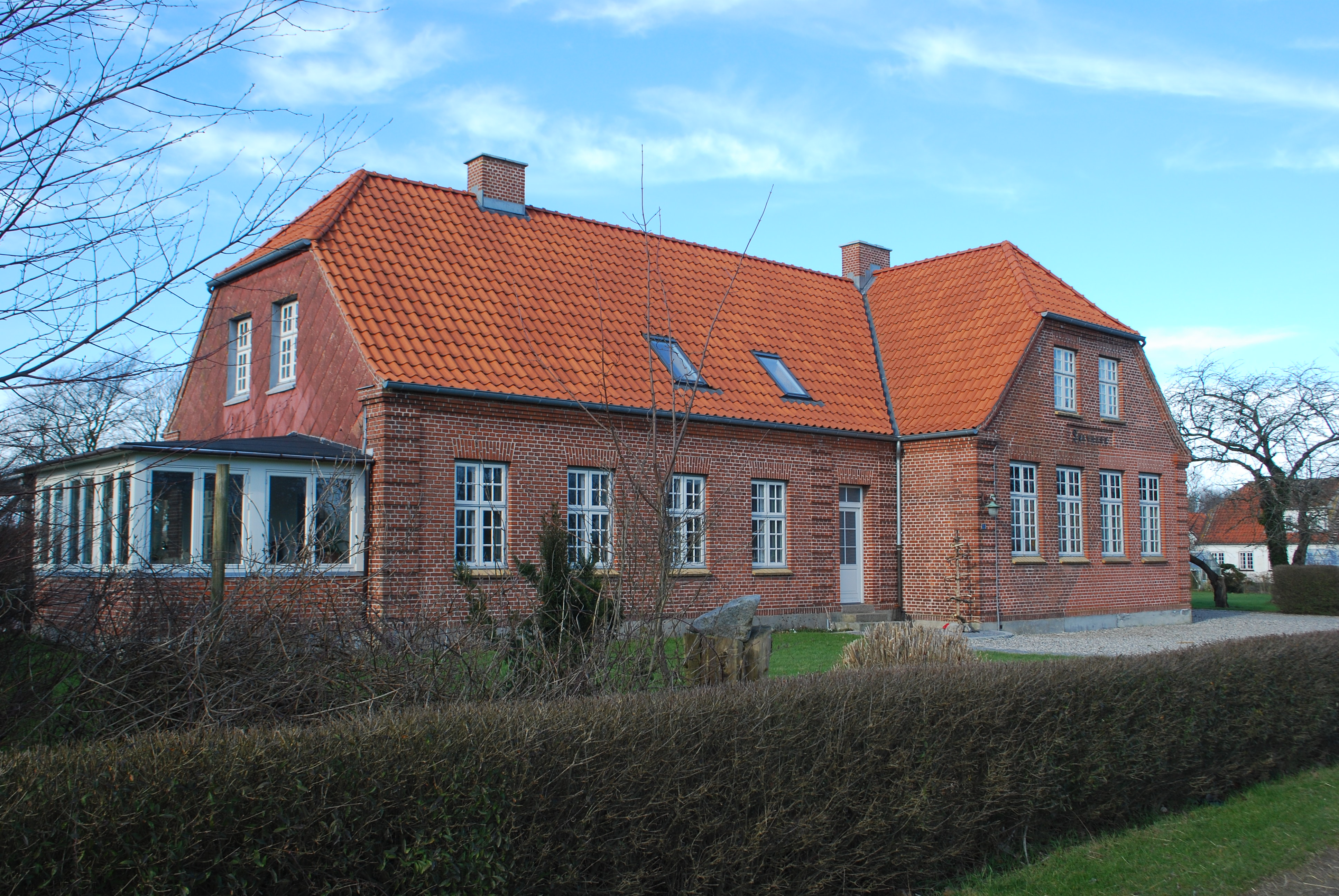 Skovhuse, Denmark